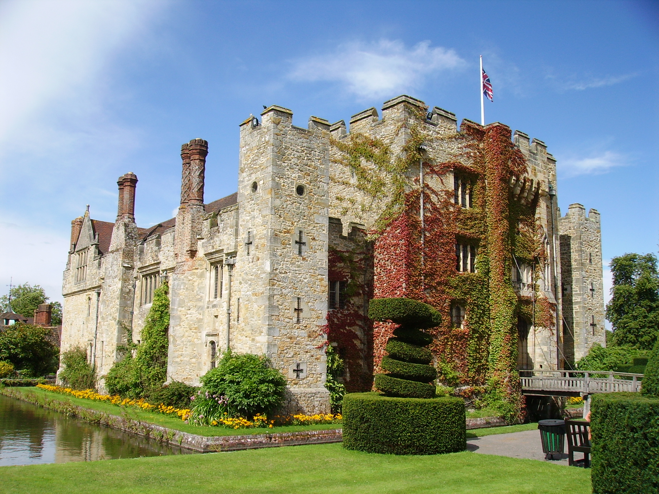 Front view of Hever Castle, Kent